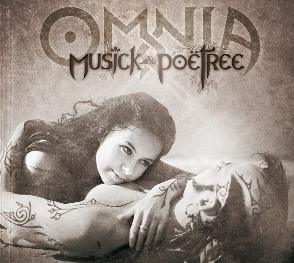 OMNIA Musick & Poëtree CD cover